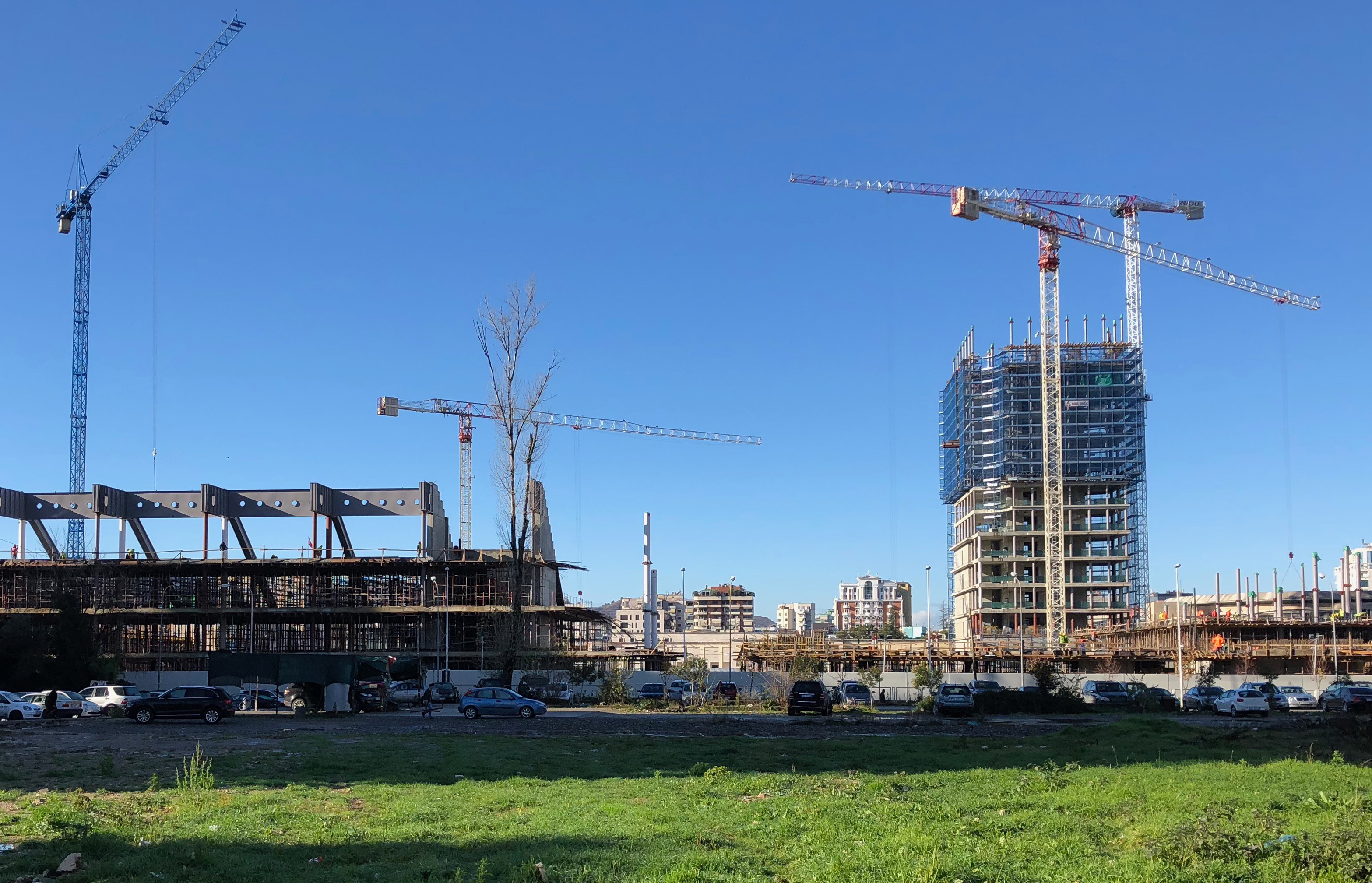 Construction of the new Qemal Stada Stadium in Tirana, December 2017